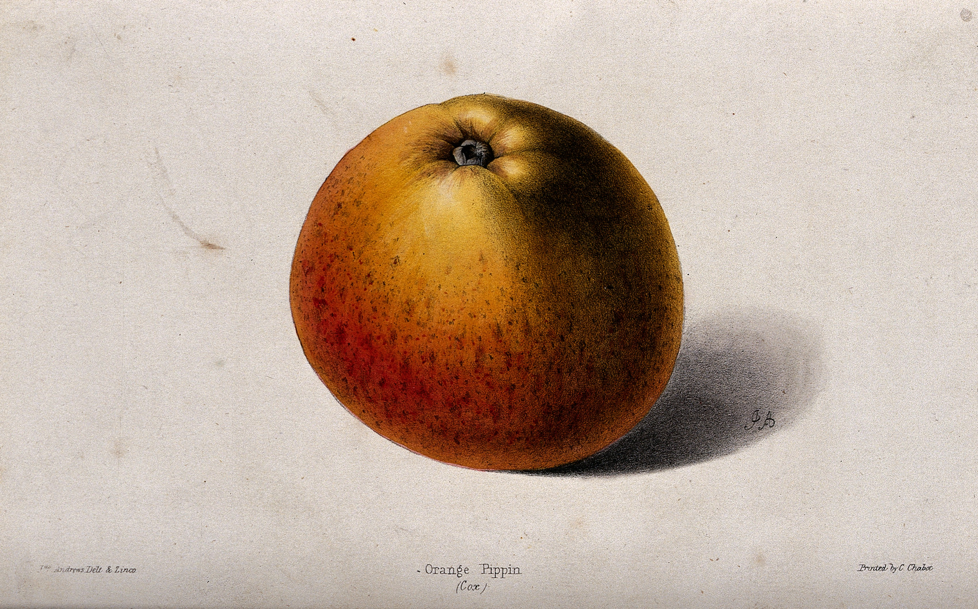 A "Cox's" Orange Pippin apple (Malus sylvestris cv.). Coloured zincograph by J. Andrews, c. 1861, after himself. Iconographic Collections Keywords: James Andrews